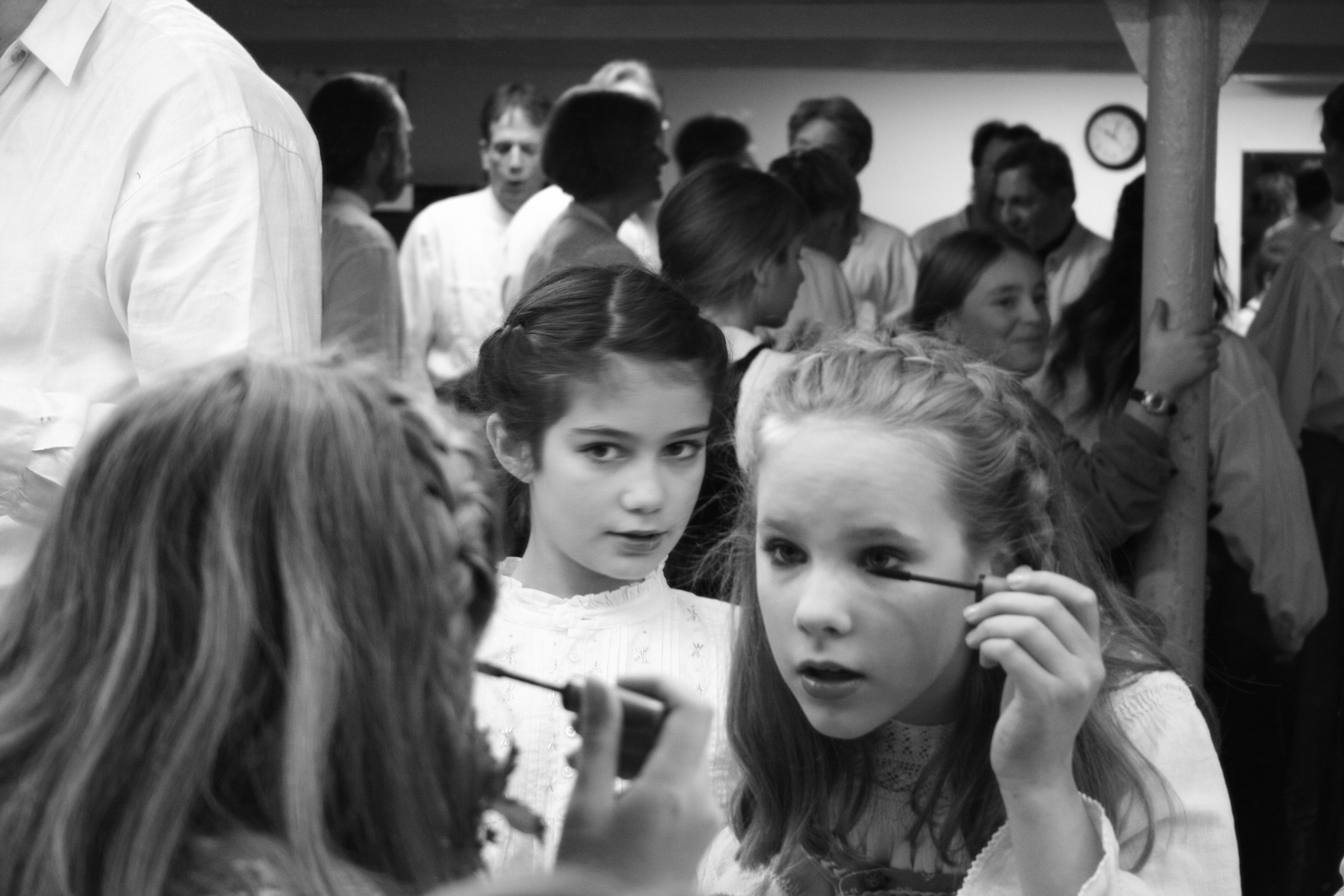 Young girl applying cosmetics.